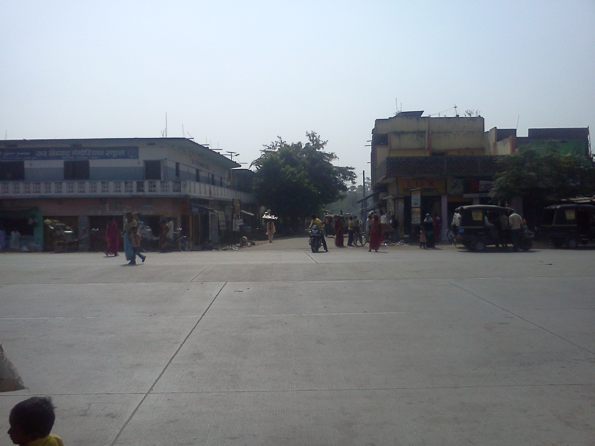 view of bhadeya from sher shah suri marg